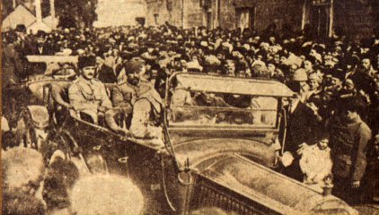 Enver Pasha in Batumi, 1918